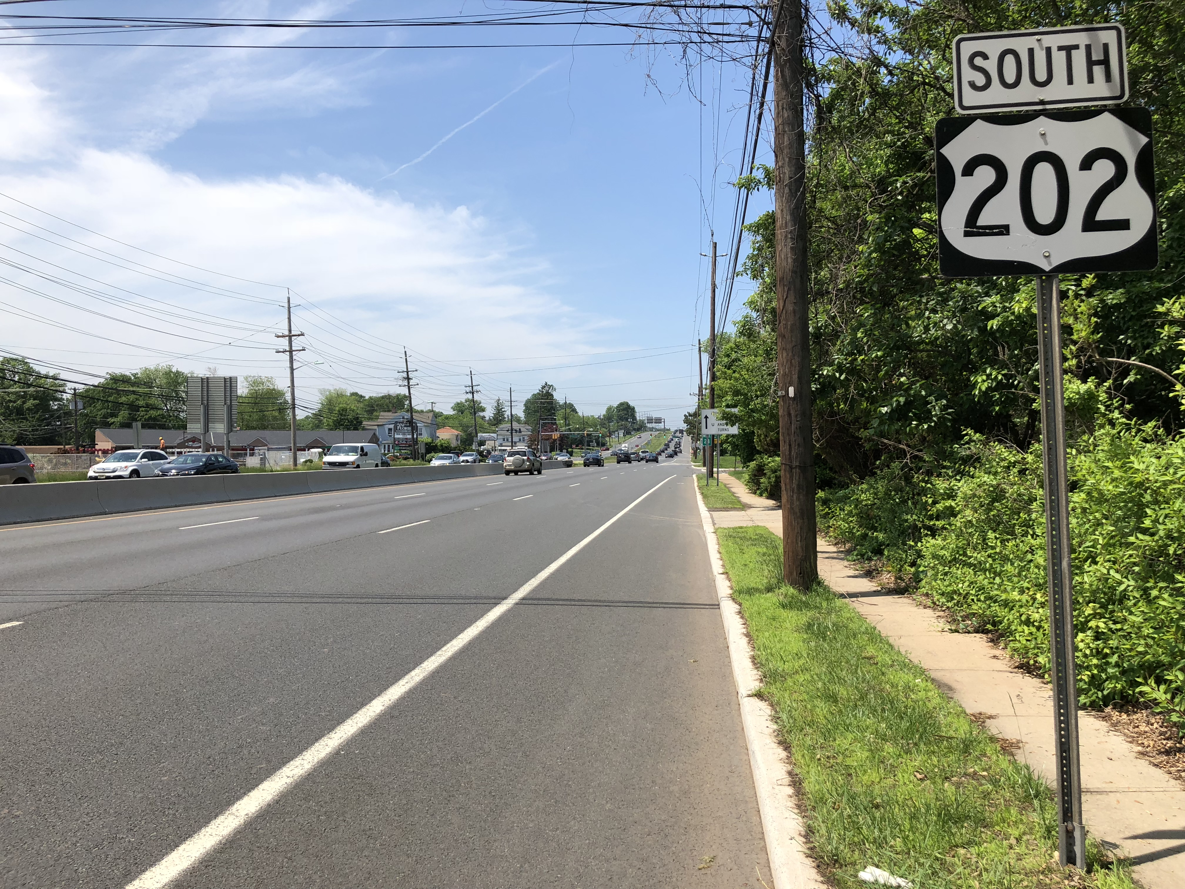 View south along U.S. Route 202 at Anderson Street in Raritan, Somerset County, New Jersey